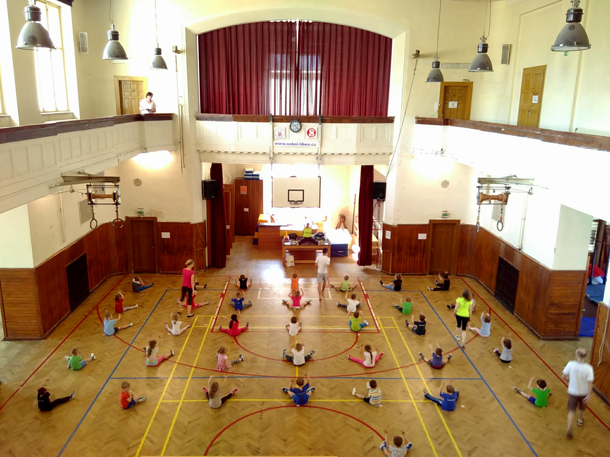 Children exercising in the main hall of the Sokol house in Libeň